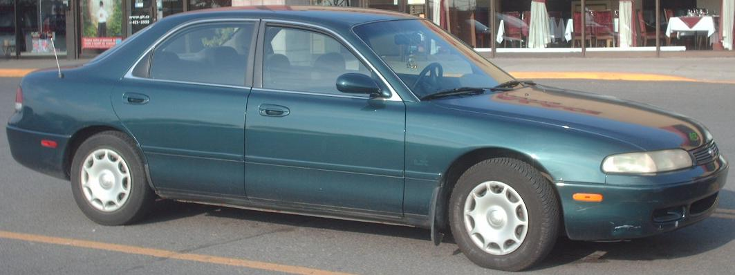 1993-1995 Mazda 626 Cronos photographed in Montreal, Quebec, Canada.